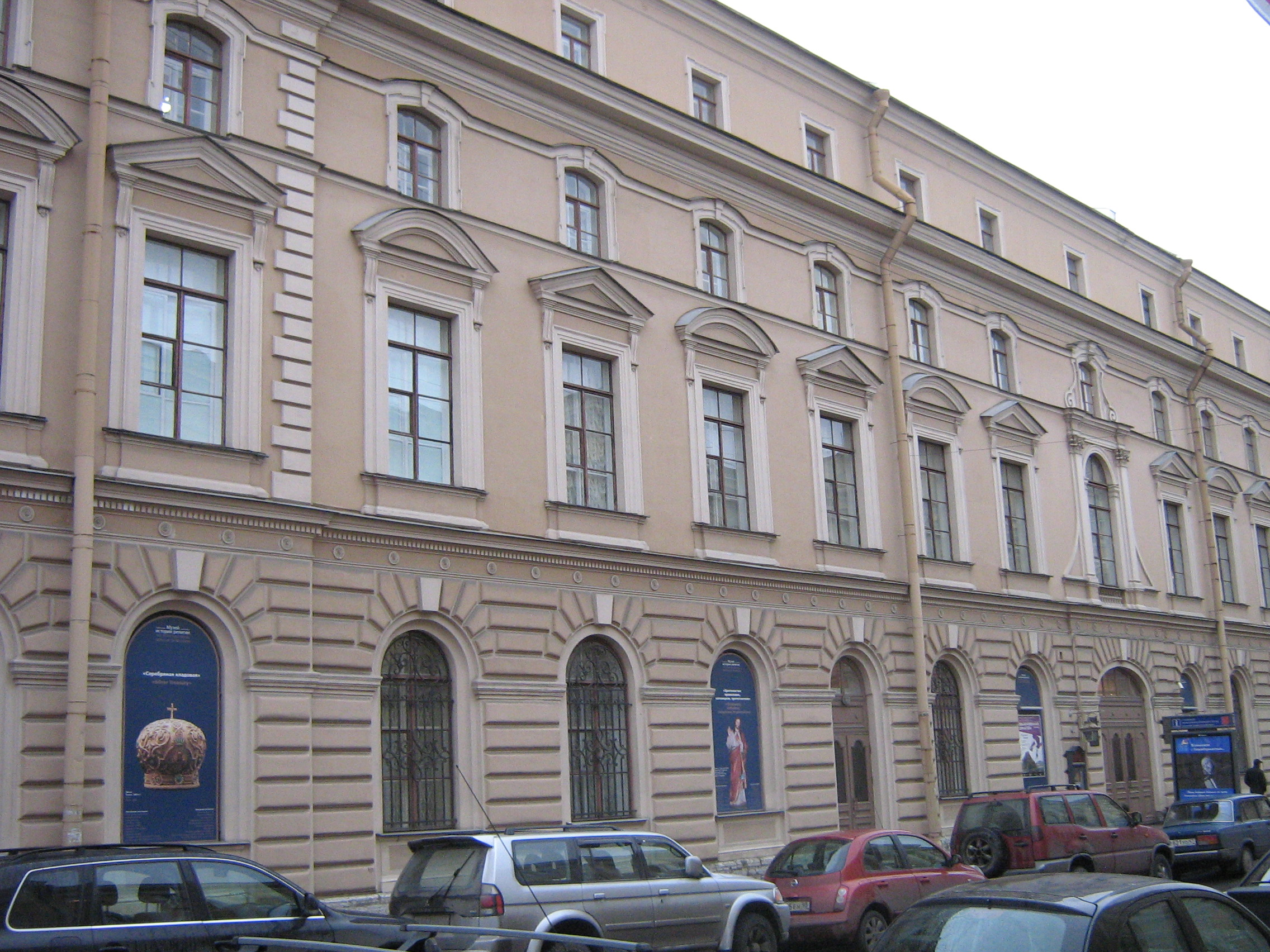 Saint Petersburg (Russia), Admiralteysky District